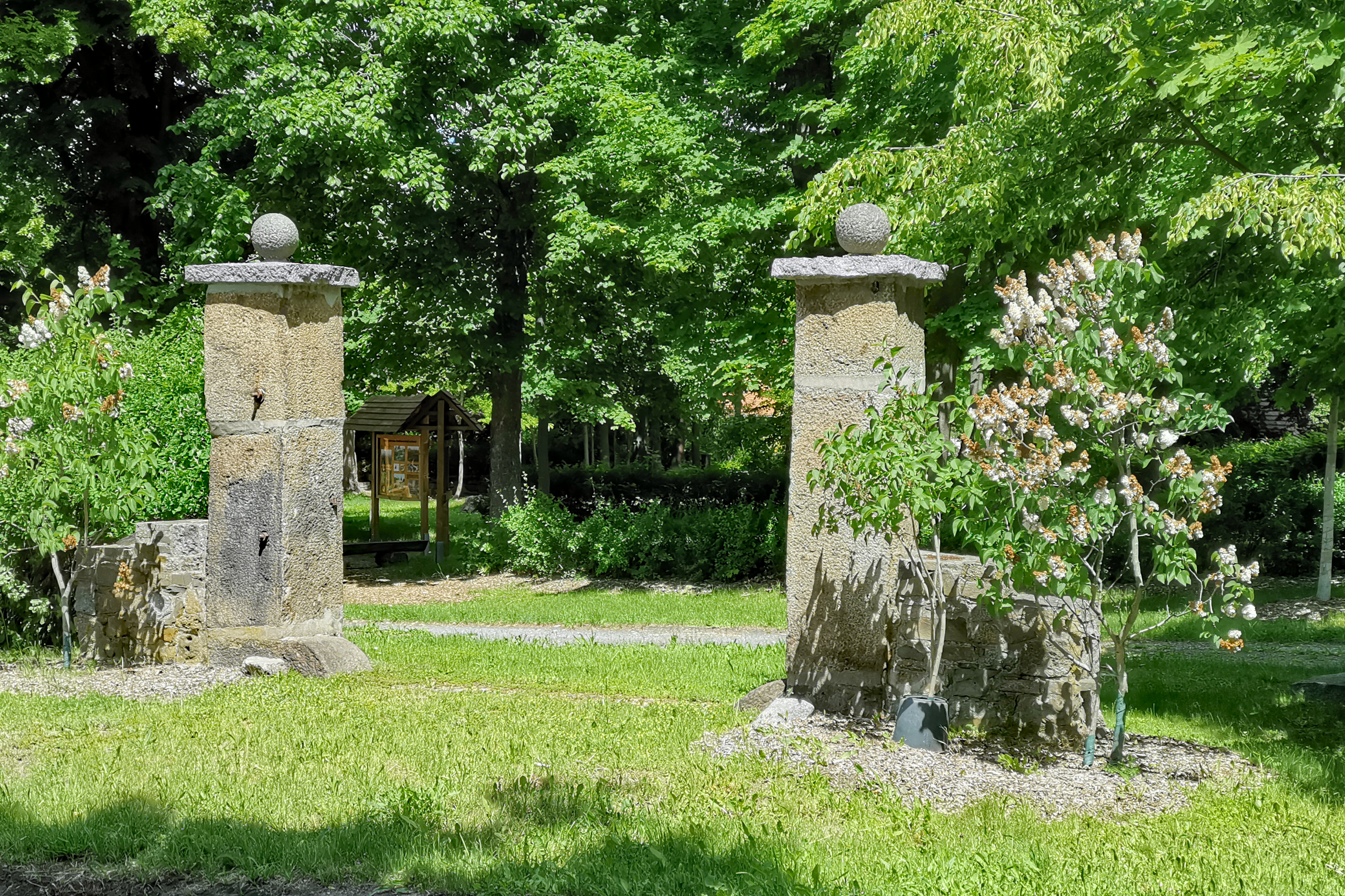 Glauschnitz (Laußnitz, Saxony, Germany)